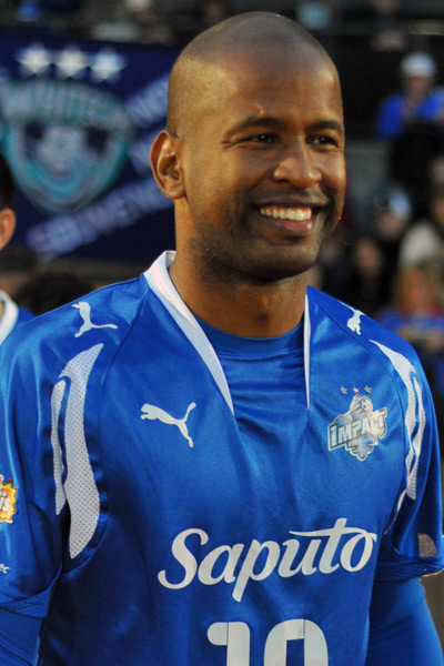 Photo of soccer player, Roberto Brown. Wilson Wong photo.